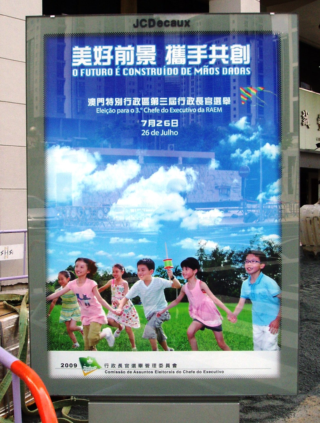 Advertisement of the Election of the 3rd CE of Macao SAR